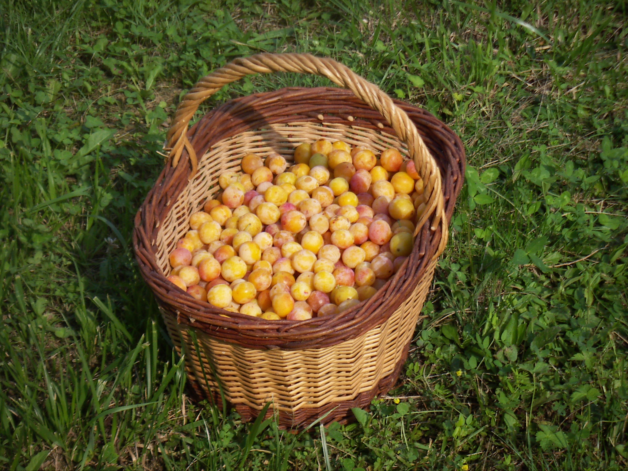 A basket of mirabelle plums